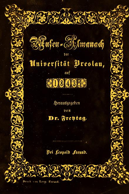 Bookcover